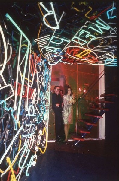 La Menesunda, importante instalación artística-happening de la artista argentina Marta Minujín junto a Rubén Santantonín (en el centro de la fotografía), en el Instituto Di Tella.